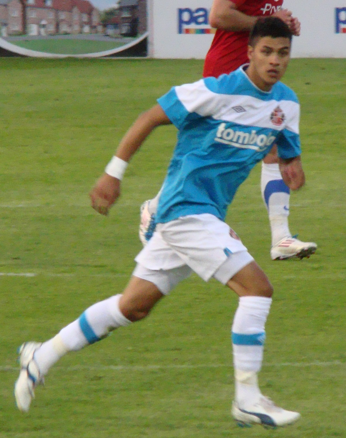 Adam Reed - YCFC vs SAFC